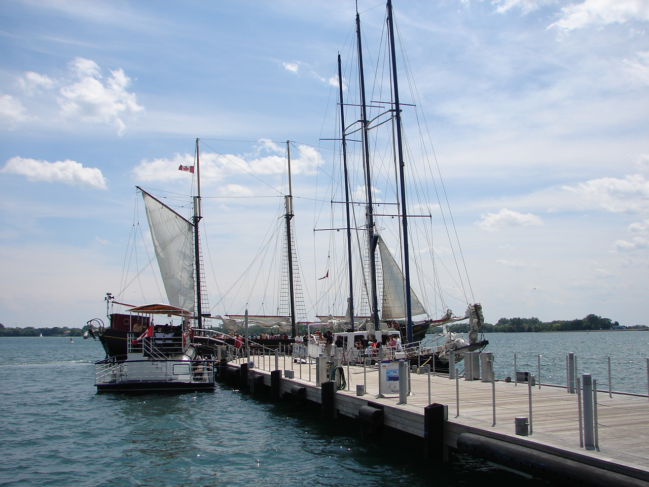 Sailboats on the Toronto waterfront.